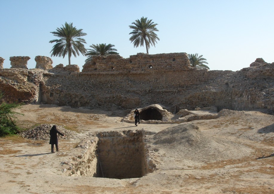 The Portuguese castle in the Qeshm Island. By Farhoudk. I made it during my visit of Qeshm Island on March 20, 2007. The picture shows interior parts of the castle.